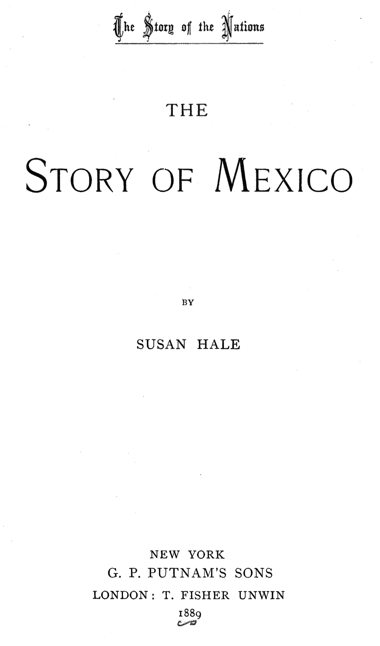 Cover page